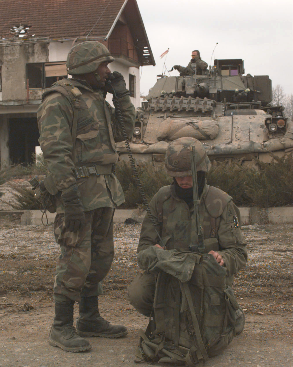 A U.S. Army soldier communicates with his headquarters as another soldier monitors the radio while on a security patrol near the town of Sljoke, Bosnia and Herzegovina, on Jan. 16, 1996, during Operation Joint Endeavor. The soldiers are patrolling the area in a M3-A2 Bradley Fighting Vehicle as part of the NATO Implementation Force (IFOR). The troops are deployed from the 1st Cavalry, Budingen, Germany.